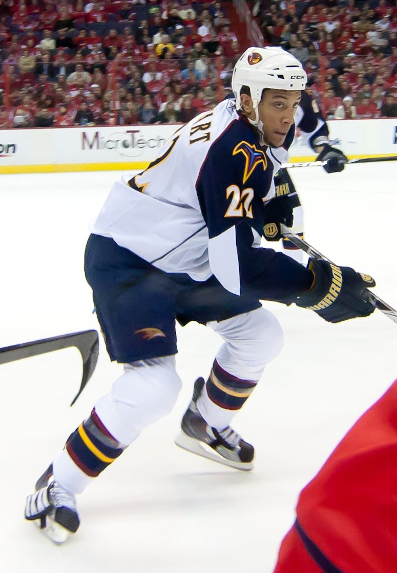 Boyd Gordon tries to beat the Thrashers, catching them in a line change.